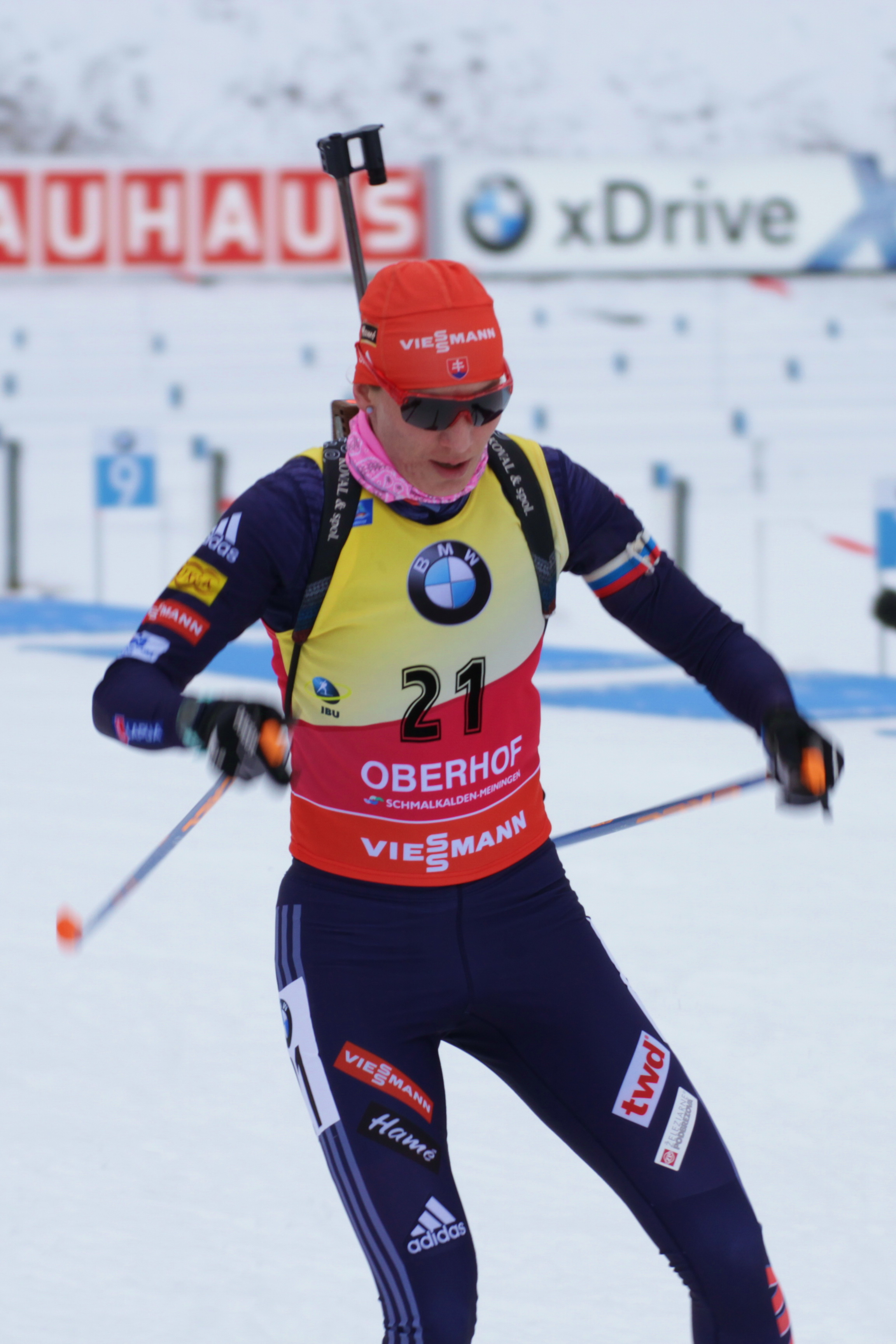 2018 Oberhof Biathlon World Cup - Sprint Women